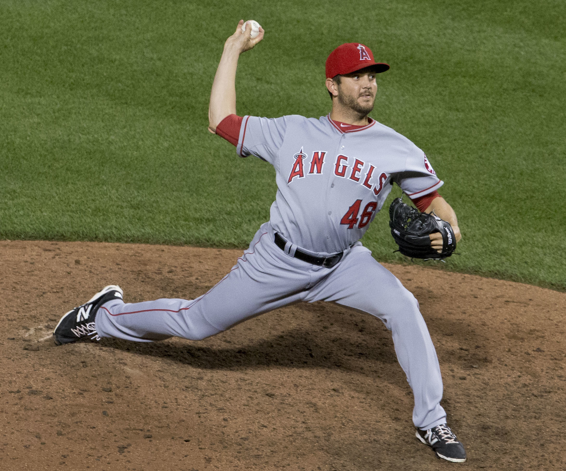 Cory Rasmus delivers a pitch for the Los Angeles Angels of Anaheim during a 2014 game at Camden Yards in Baltimore.